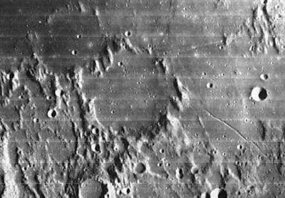 Réaumur lunar crater - image LOIV 101 H3